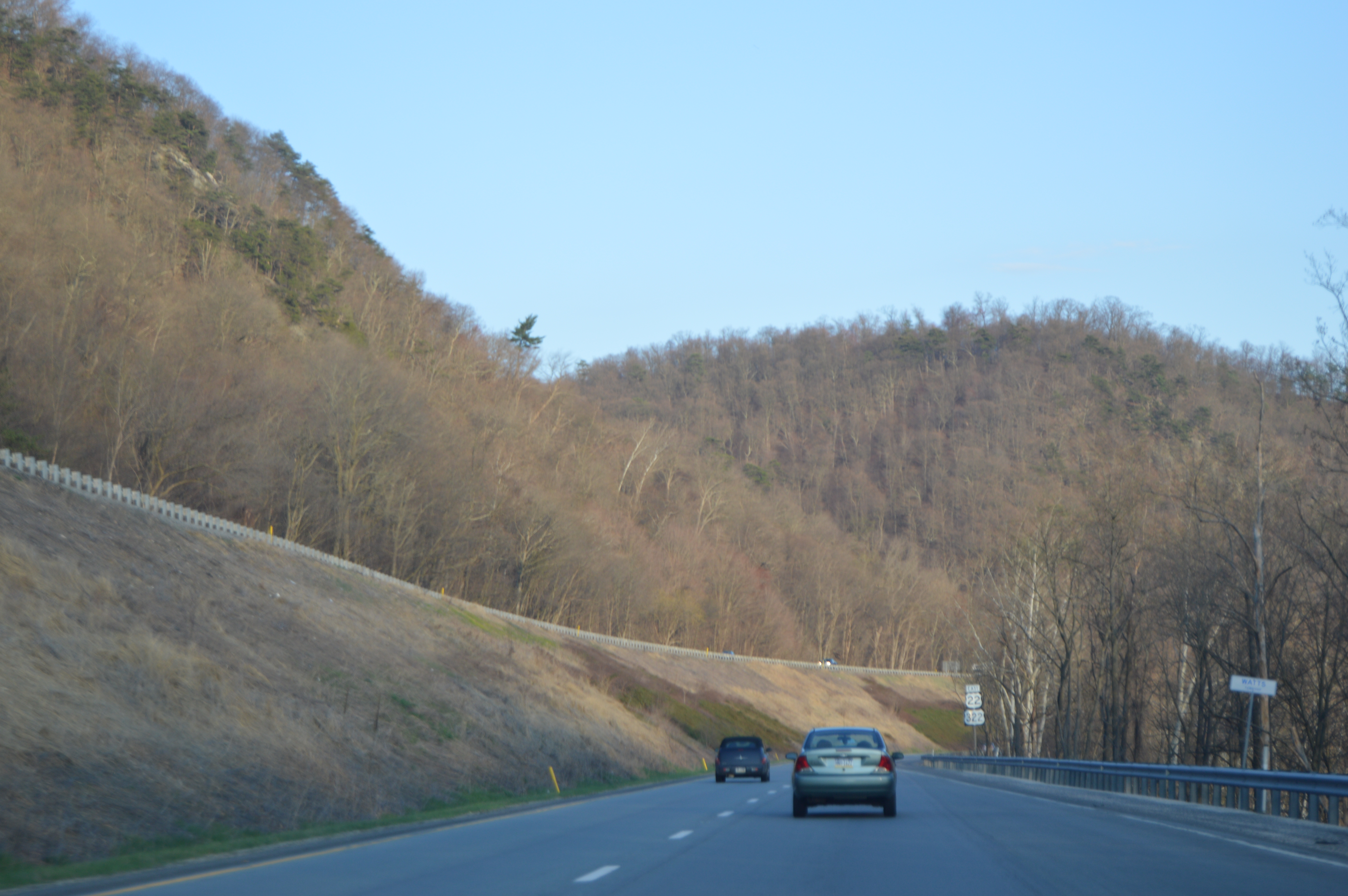 Hills above the Juniata River, seen from U.S. Routes 22/322, east of Newport in northwestern Watts Township, Perry County, Pennsylvania, United States.